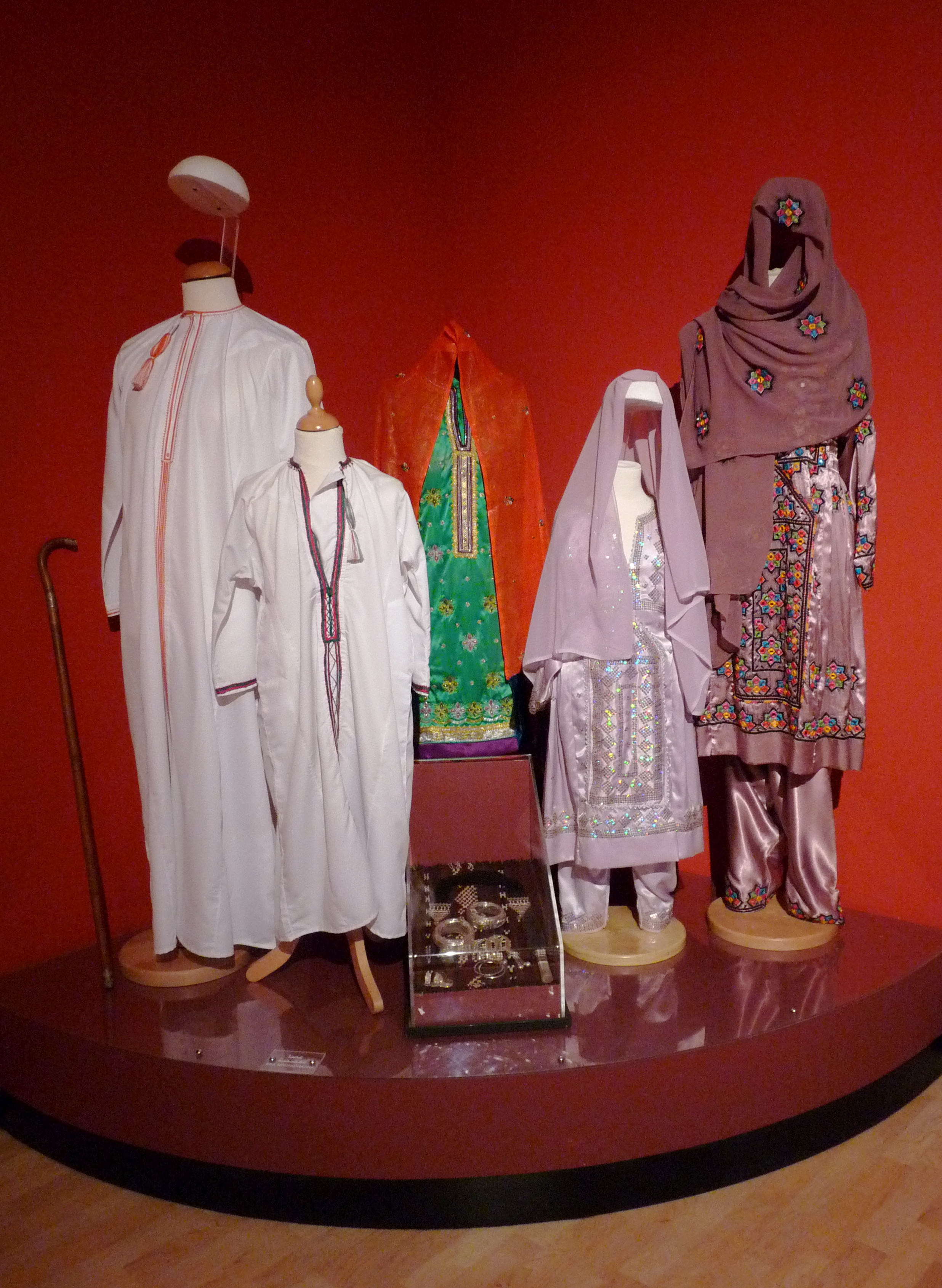 Bait Al Baranda Museum in Muscat (Oman). Traditional clothing.